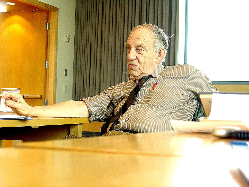 Photography of Professor Elihu Katz at University of Pennsylvania